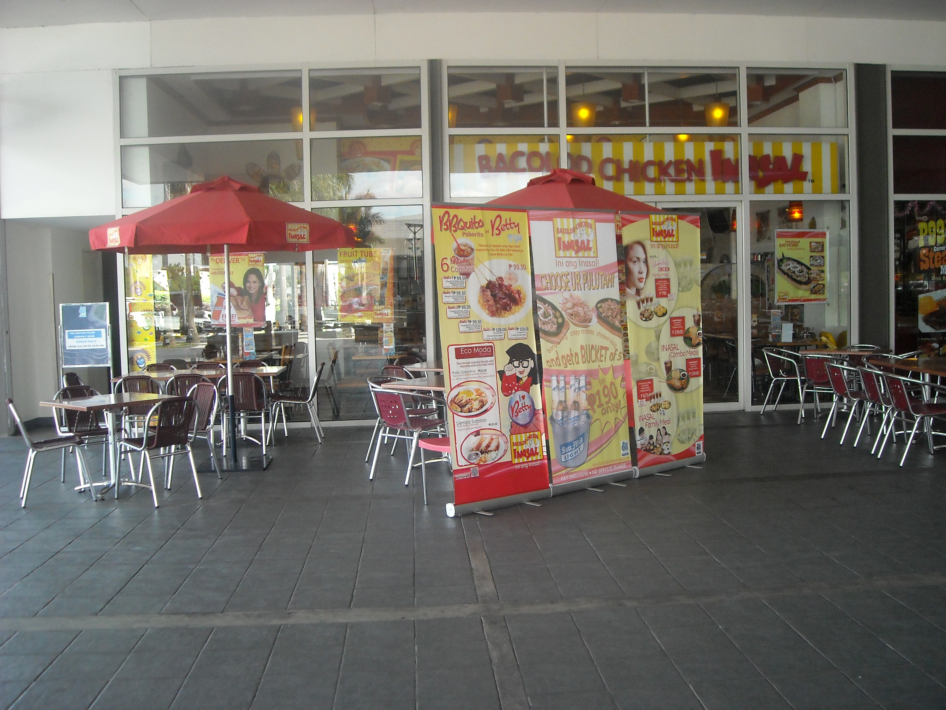 Bacolod Chicken Inasal branch taken by me in Clarkfield Pampanga.